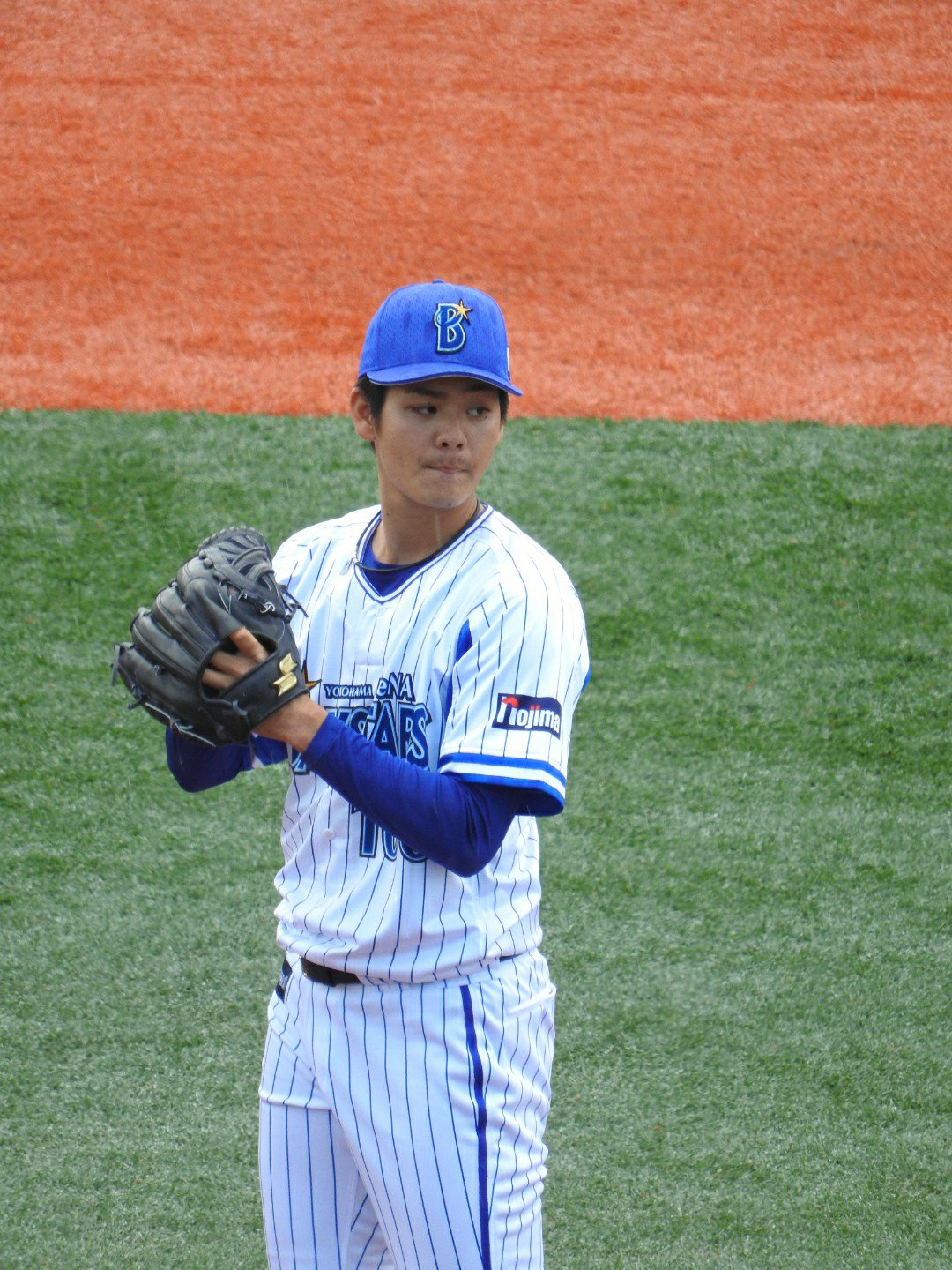 2019年5月2日横須賀スタジアムにて